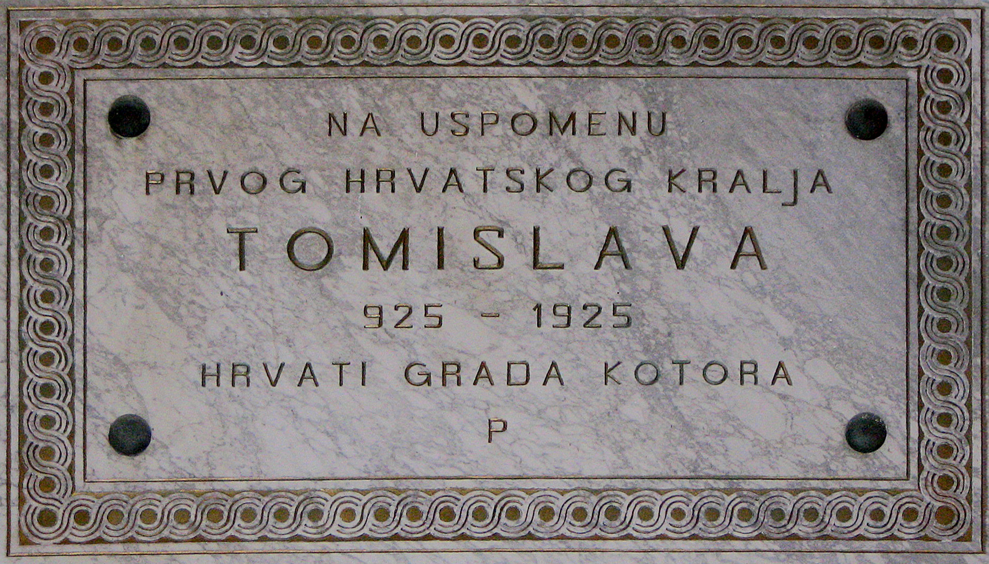 Tomislav kotor